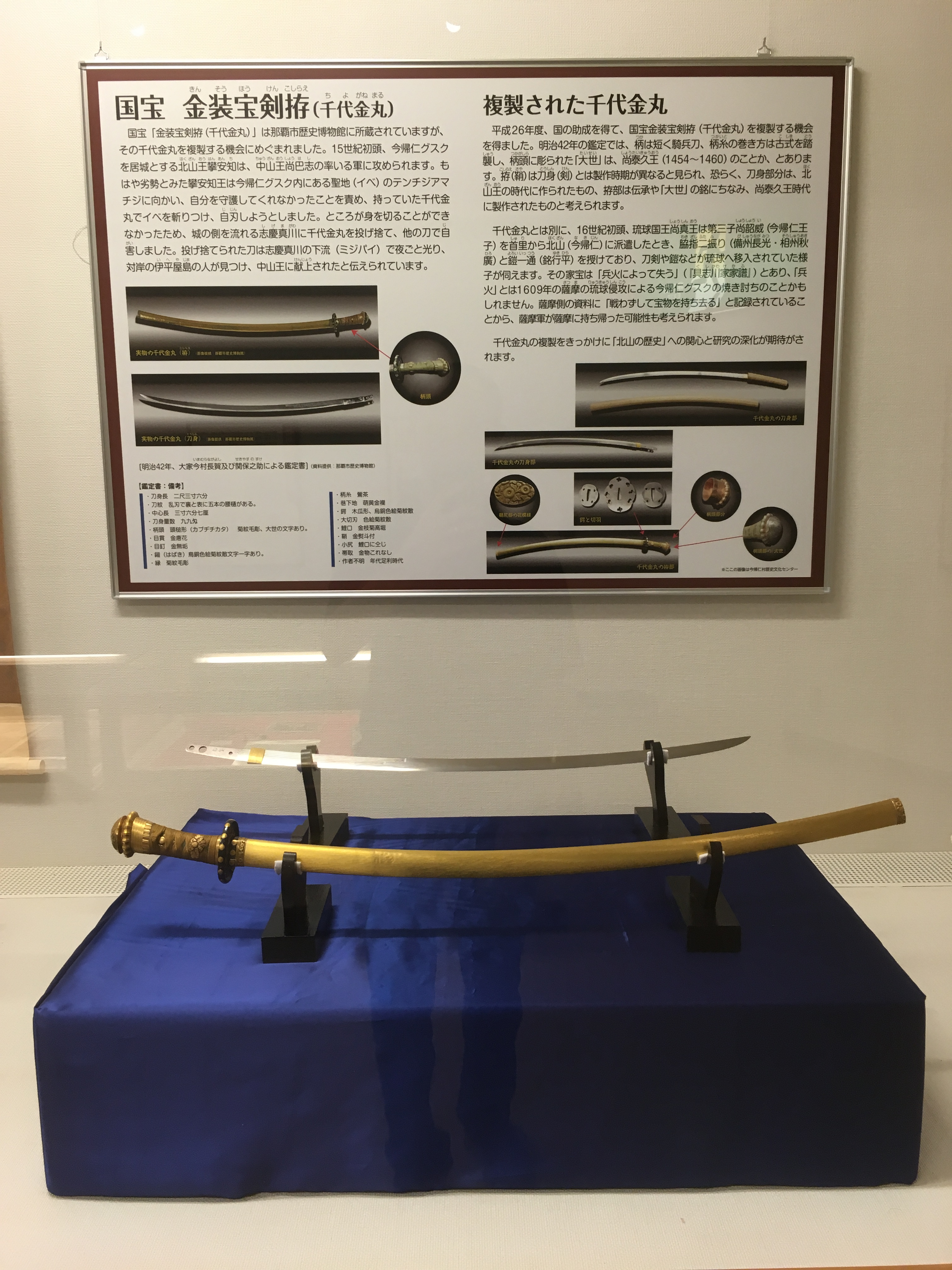 The Chiyoganemaru on display at Nakijin Castle